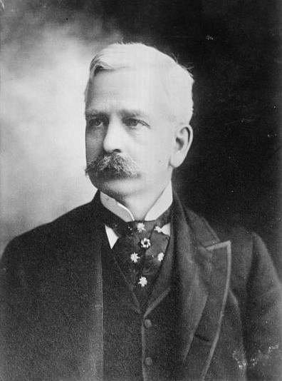 Marshall Field (1834 - 16, 1906), founder of Marshall Field and Company